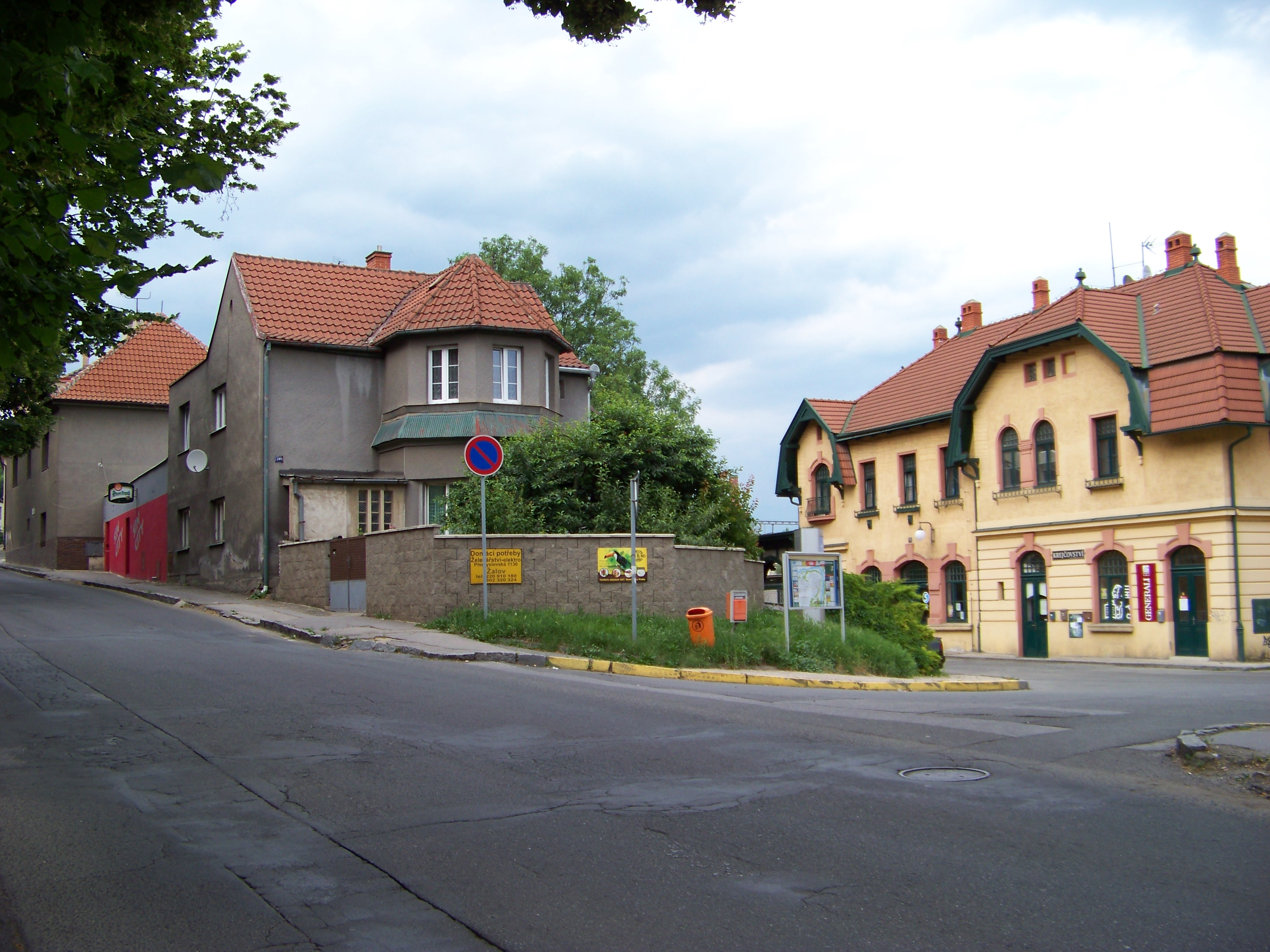 Roztoky, Prague-West District, Central Bohemian Region, Czech Republic. Nádražní 281, 89.